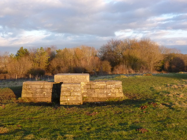 The viewpoint, Walton Hill, Polden Hills, Somerset